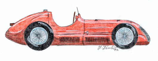 Maserati 4CL